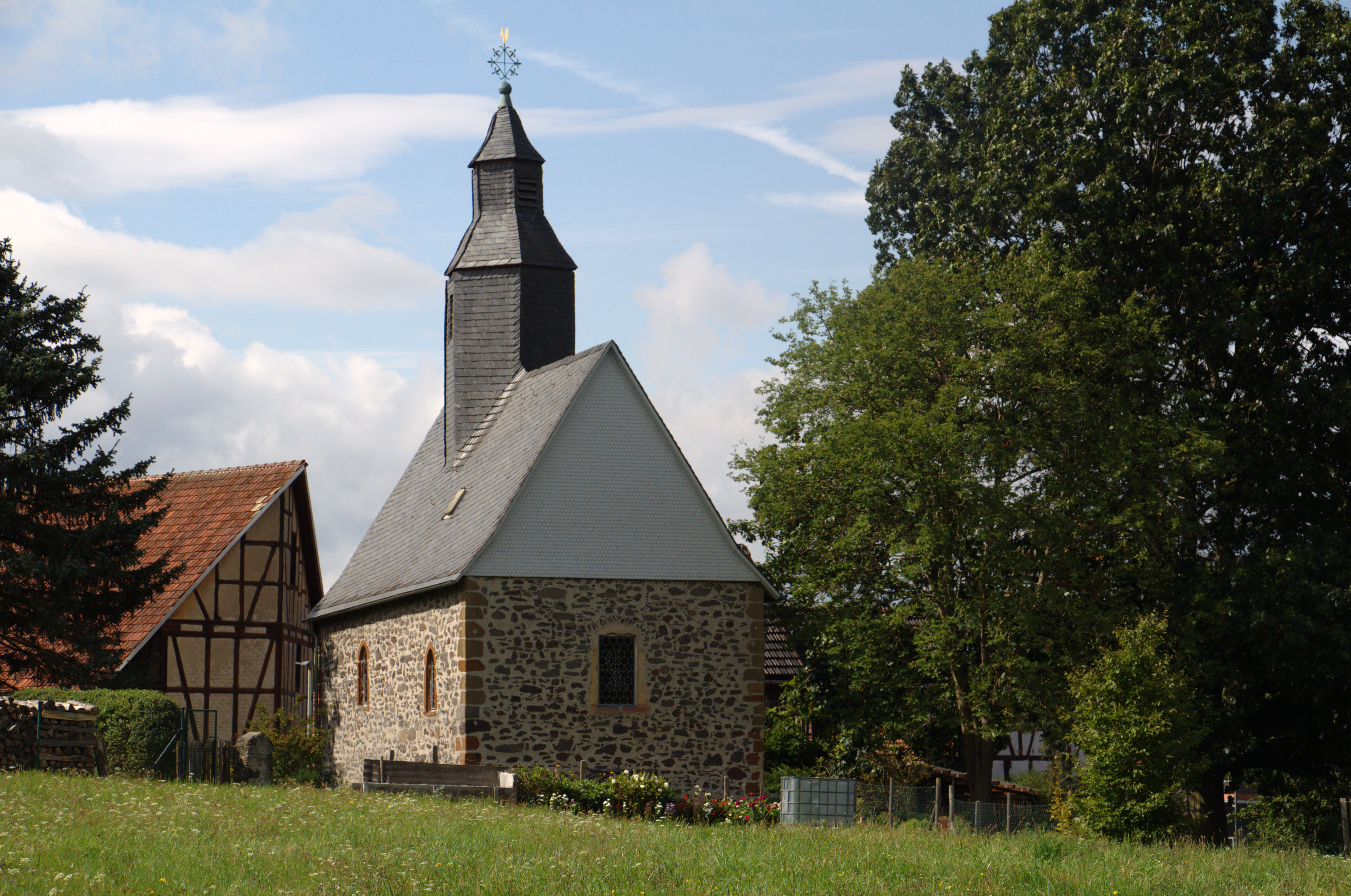 Protestant church in Wettsaasen, Muecke, Hesse, Germany